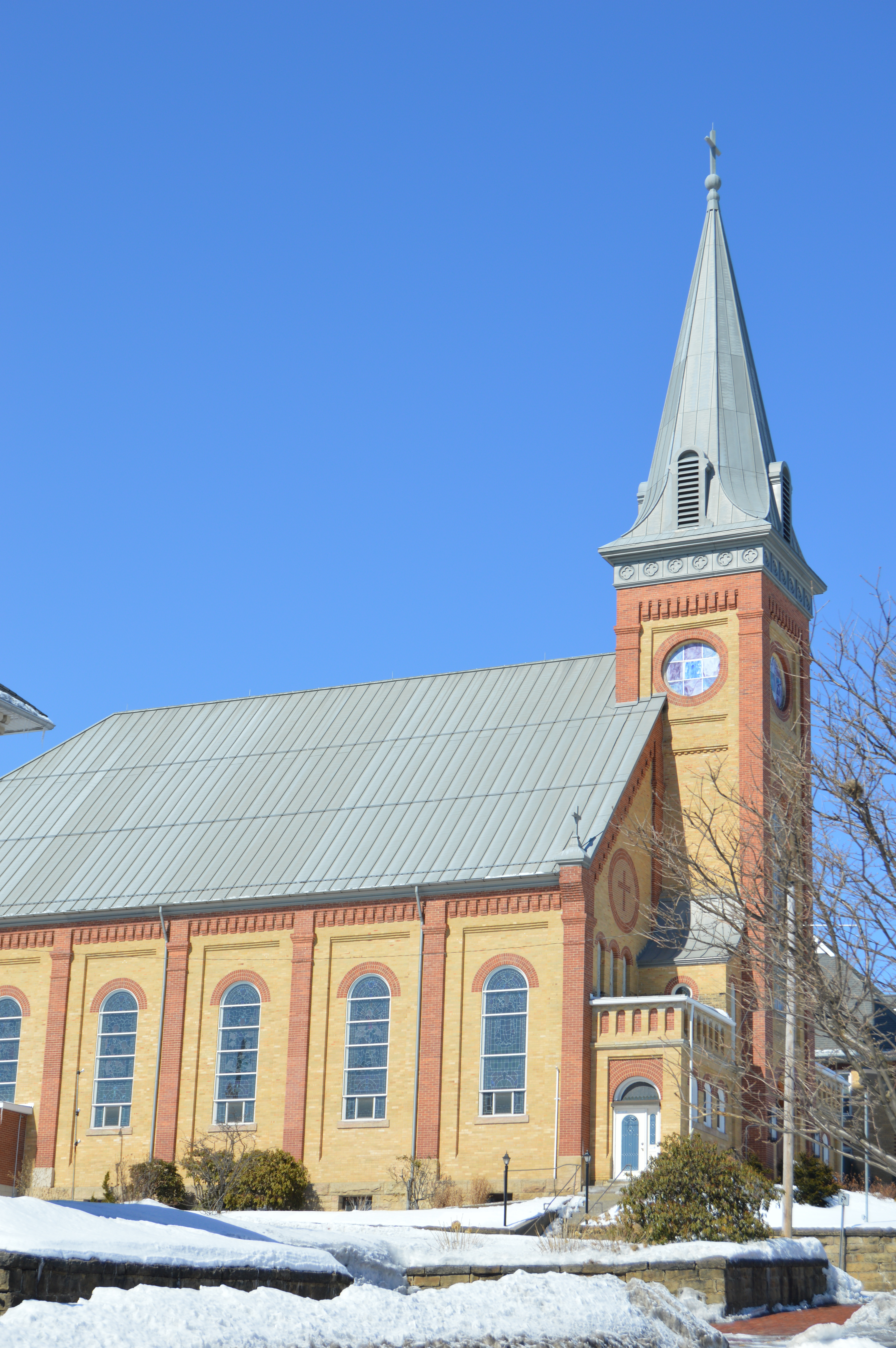 Southern side of St. Mary's Catholic Church, located at 909-911 Sixth Avenue in Patton, Pennsylvania, United States. Built in 1899, it is part of the Patton Historic District, a historic district that is listed on the National Register of Historic Places.